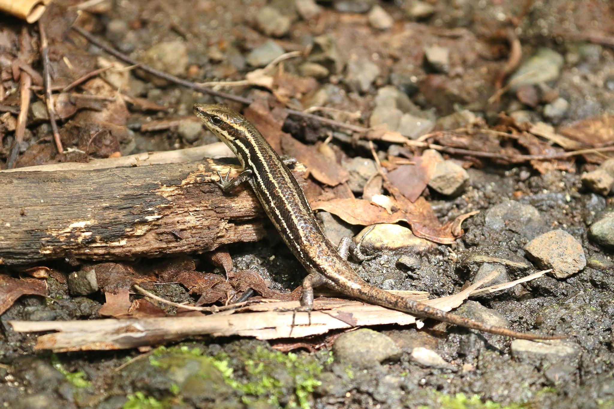 Kopstein's Emo Skink (Emoia jakati). Species of reptile.